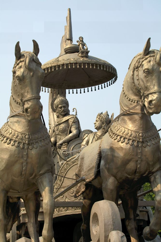 Arjuna is the archer, Krishna the charioteer. This scene iconically symbolizes the Bhagavad Gita - the spiritual discussion between them about war and dharma. This sculpture is found in a temple complex, Kurukshetra, Haryana India